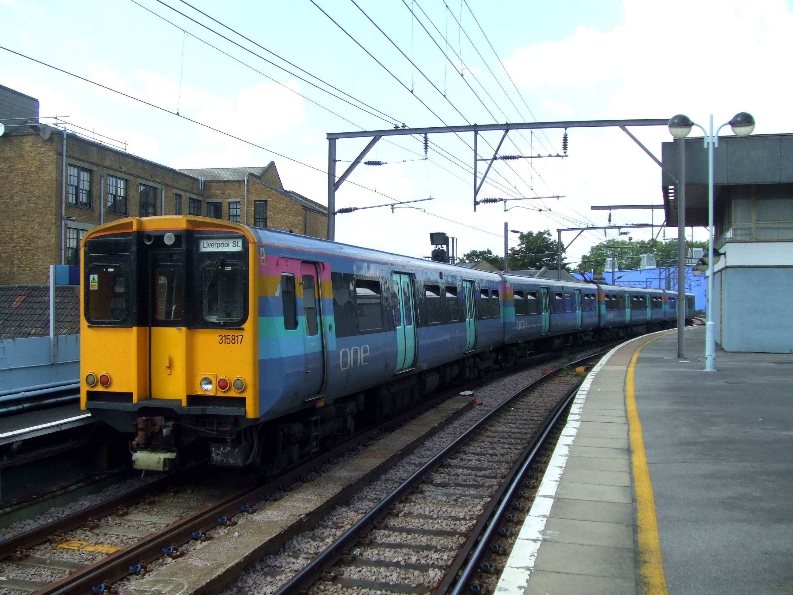 BREL (York) Class 315 Standard Mk.II 25k v ac overhead inner-suburban 4-car emu No.315 817 of "One" passing Hackney Downs on its way to Liverpool St., 08/07.